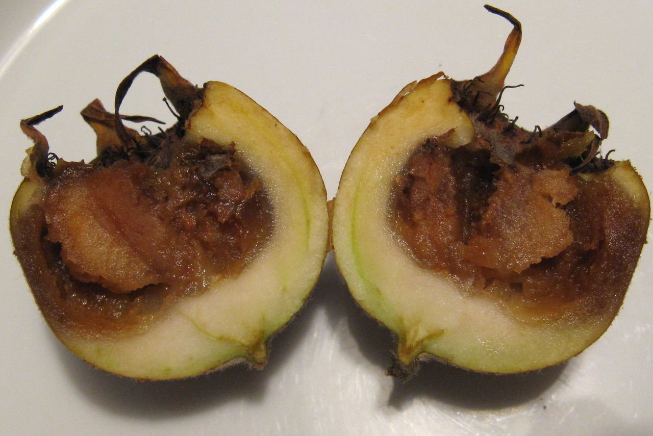 The normal ripening process (bletting) begins in just part of the fruit.